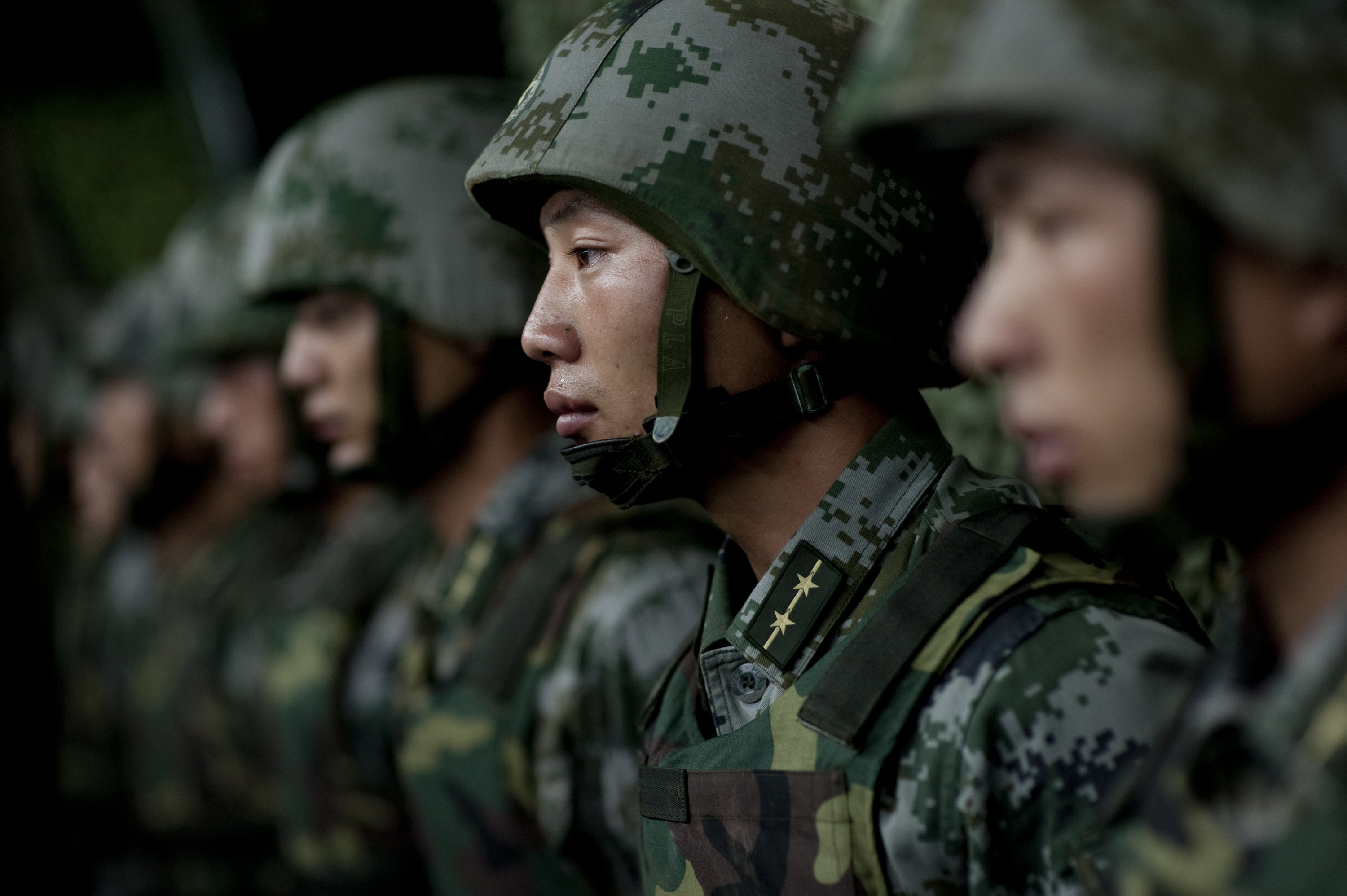 110712-N-TT977-077 - Soldiers of the Chinese People's Liberation Army 1st Amphibious Mechanized Infantry Division prepare to provide Chairman of the Joint Chiefs of Staff Adm. Mike Mullen with a demonstration of their capablities during a visit to the unit in China on July 12, 2011. Mullen is on a three-day trip to the country meeting with counterparts and Chinese leaders. (DoD photo by Mass Communication Specialist 1st Class Chad J. McNeeley/Released)